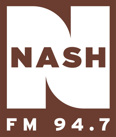 94.7 version of the Nash FM logo used by, for example, the first Nash FM station WNSH Newark, New Jersey